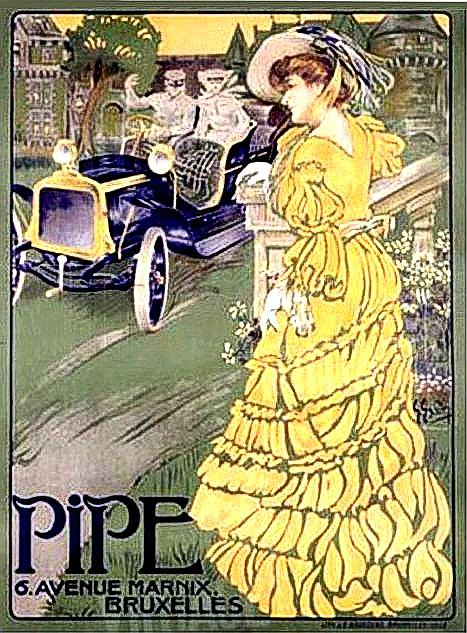 Poster by Georges Gaudy